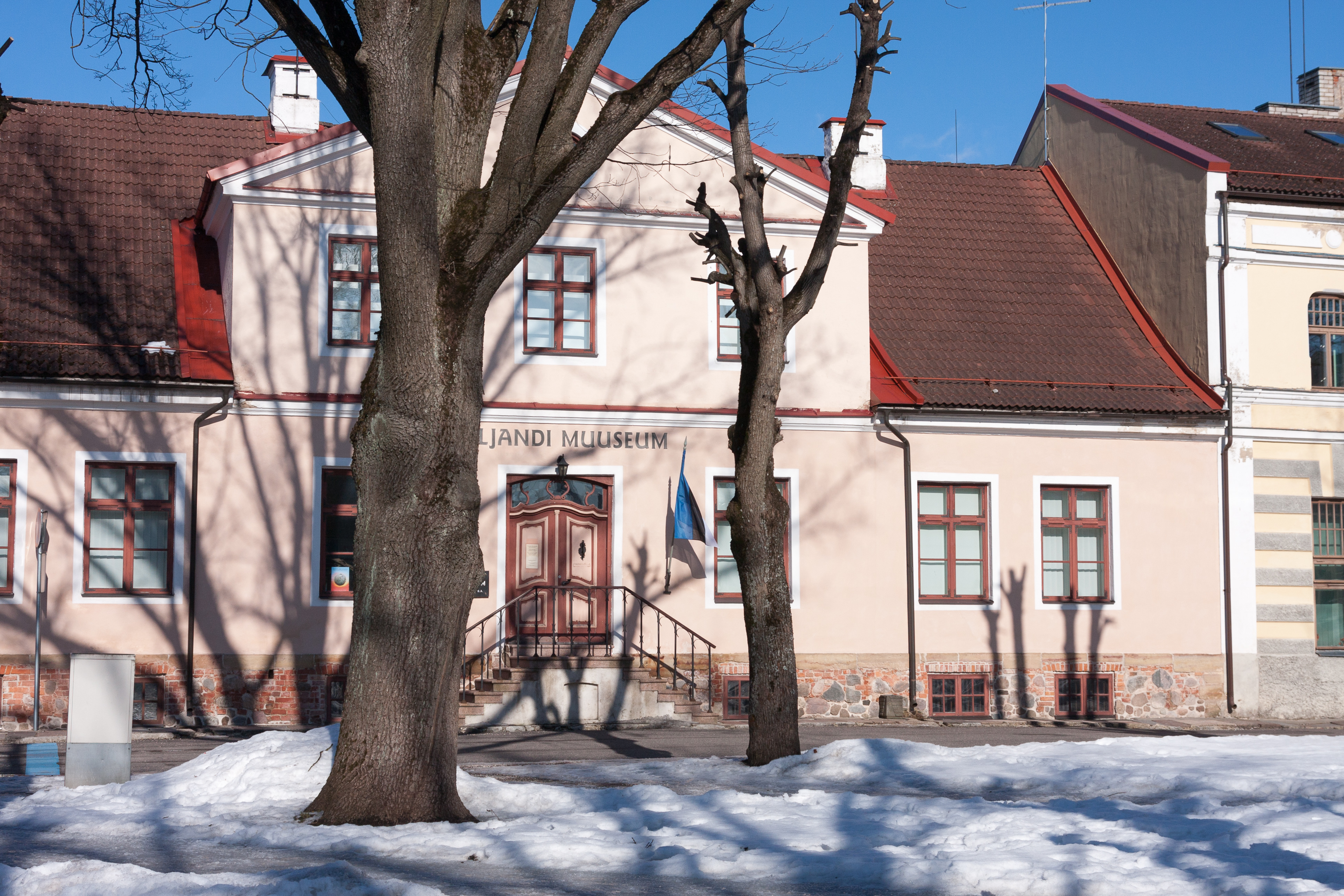 Viljandi Museum building.